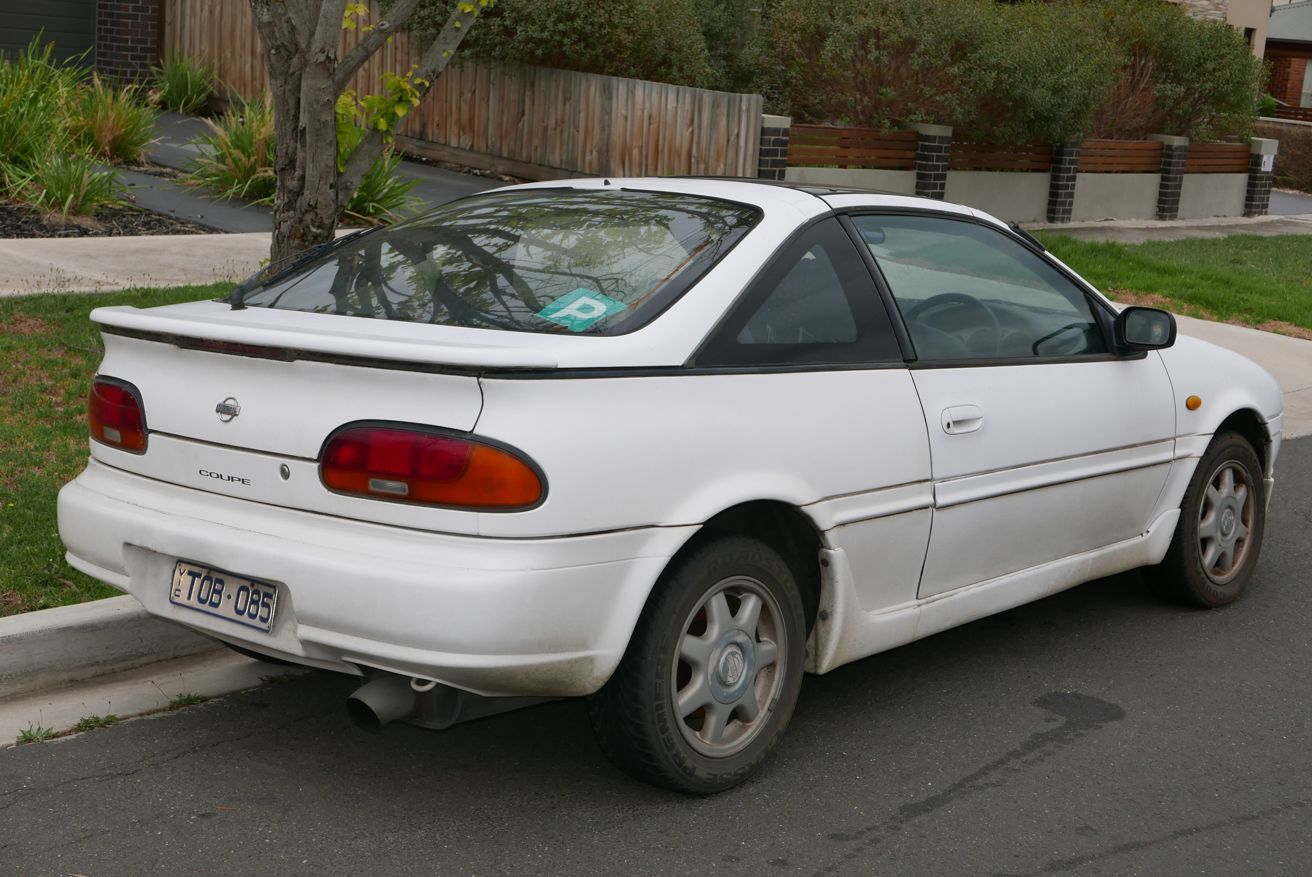 1994 Nissan NX (B13) R coupe. Photographed in Pascoe Vale, Victoria, Australia. Vehicle registration enquiry results Jurisdiction Victoria Registration TOB085 Chassis code JN1HGAB13A0004541 Engine code SR20466147A Compliance date 1994-11 Year of manufacture 1994